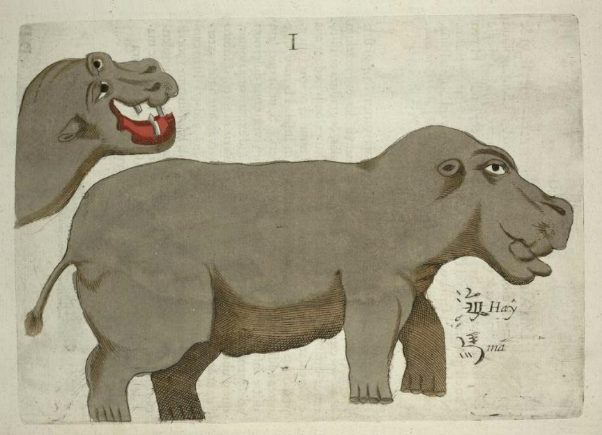 One of the earliest natural history books about China. Jesuit Missionary author. (obviously includes some non-Chinese {and non-floral} species)